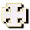 Escudo Silencio